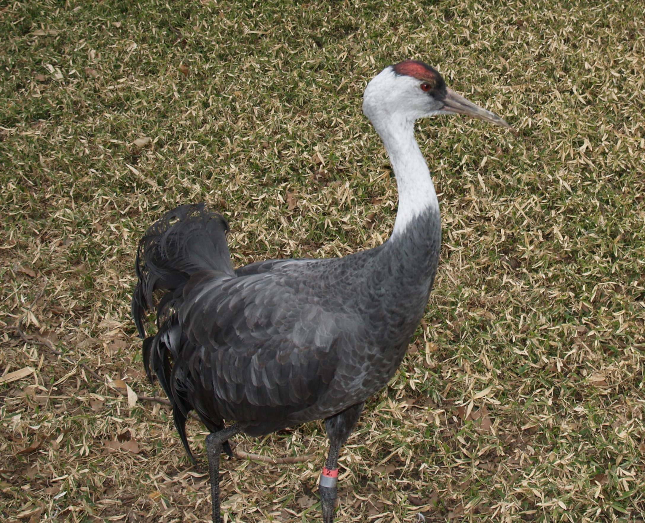 Hooded Crane at Philadelphia Zoo.